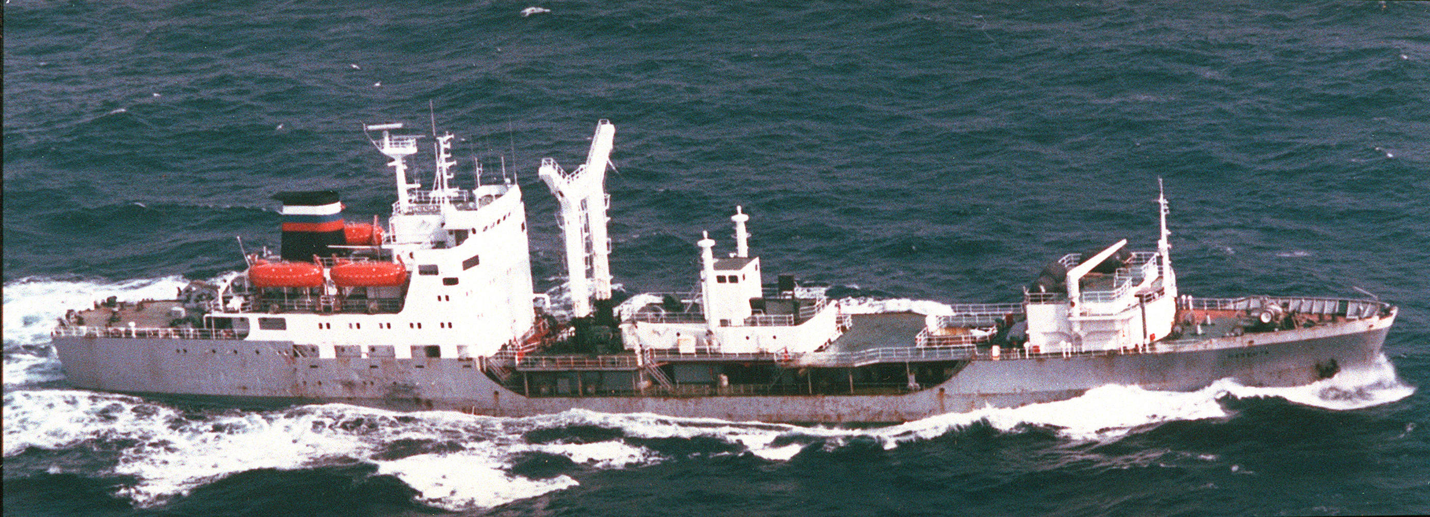 Aerial starboard side view of the Russian Navy Pacific Fleet Dubna class replenishment oiler Pechenga underway.